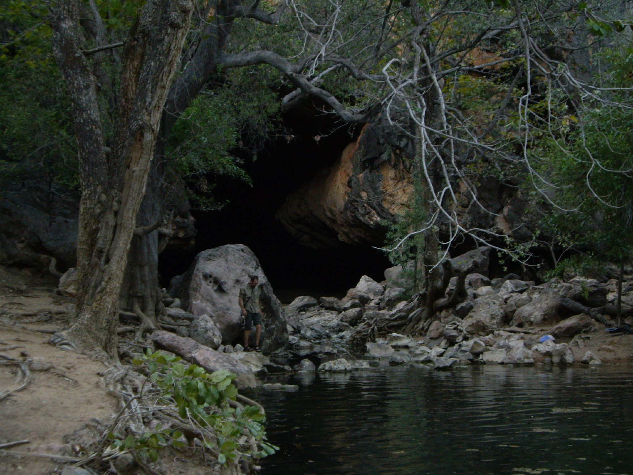 This is a photograph of Tunnel Creek in the Kimberley region of Western Australia